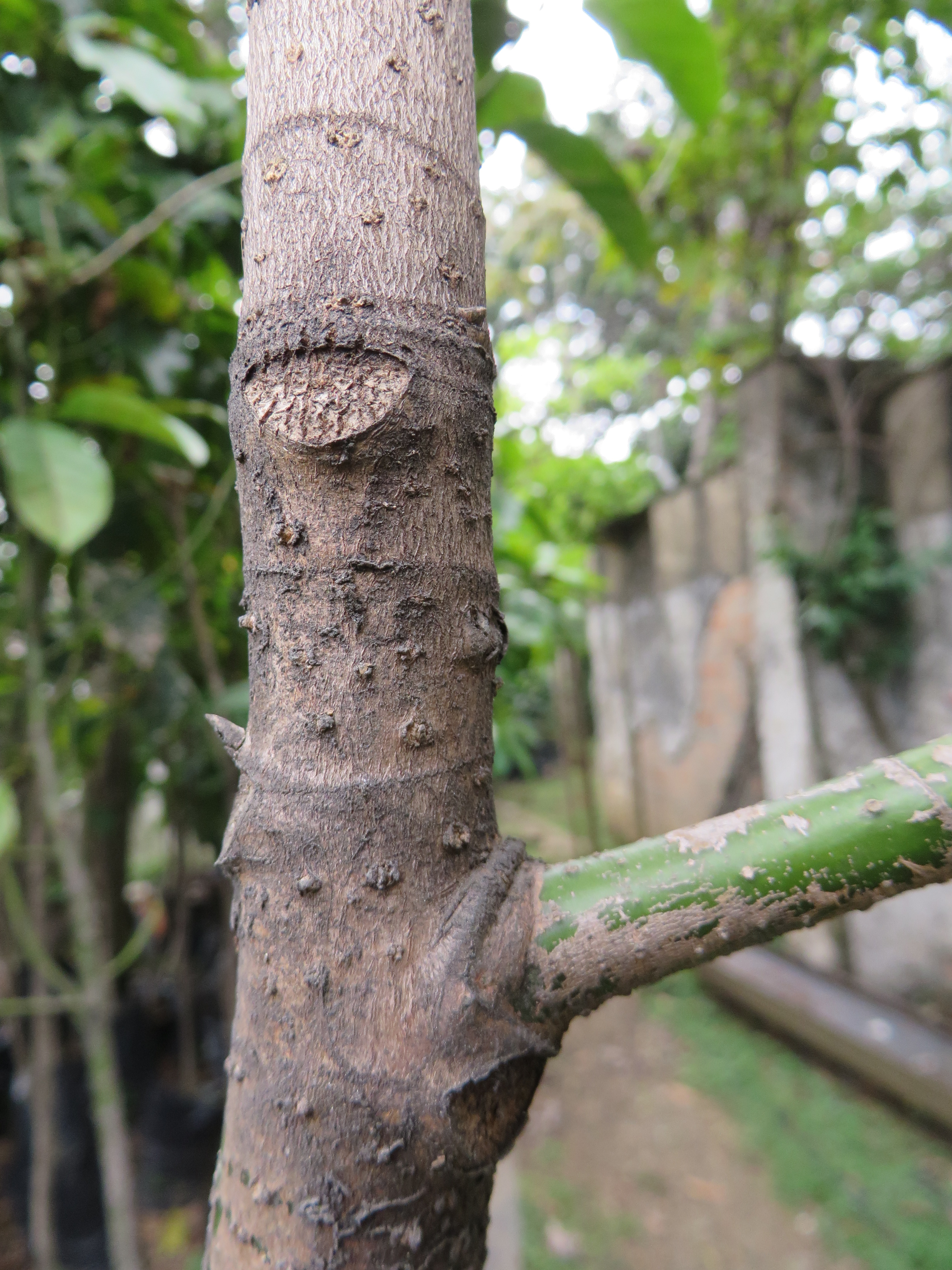 M. silvioi trunck